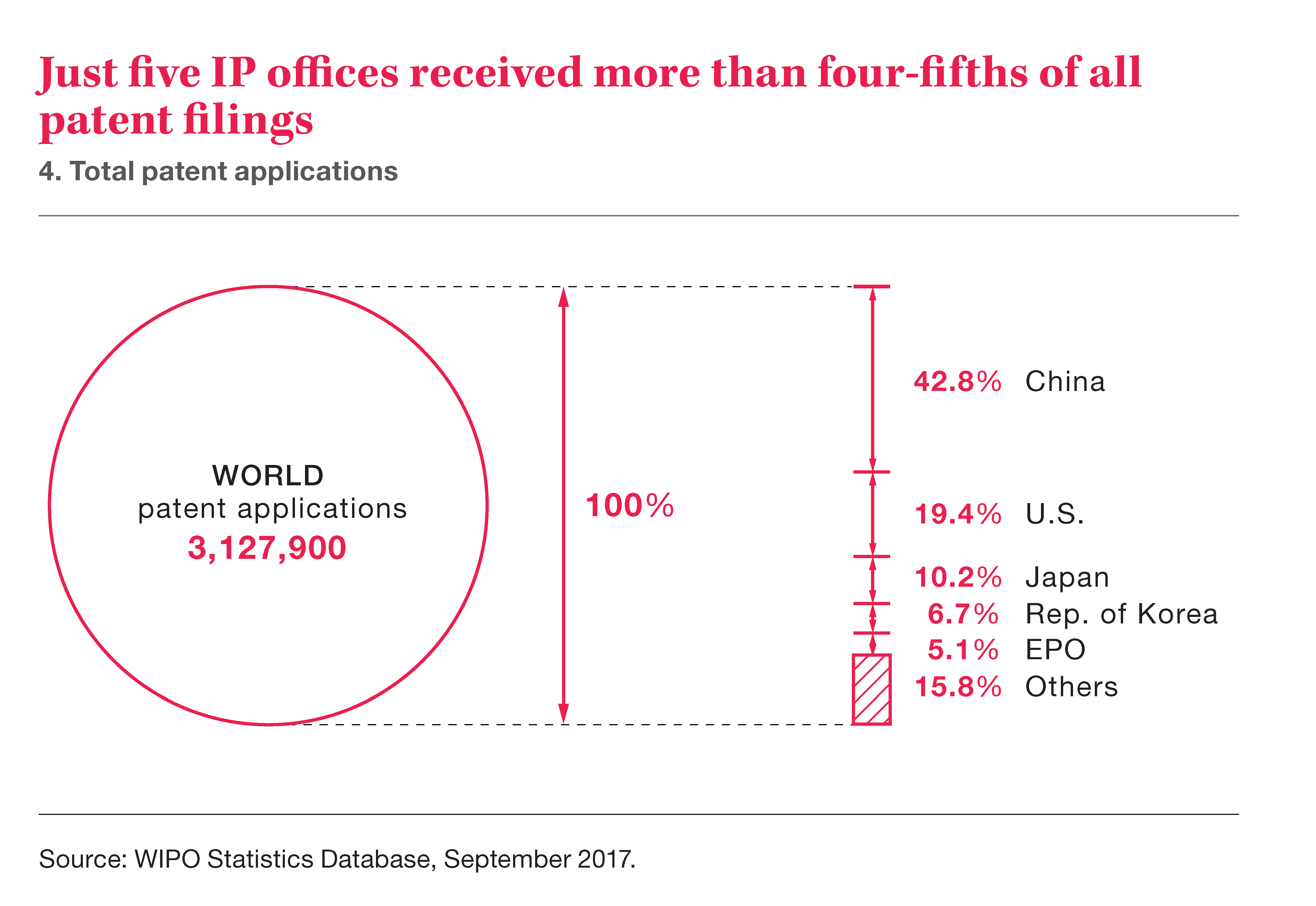 Total patent applications. Taken from WIPO IP Facts and Figures 2017